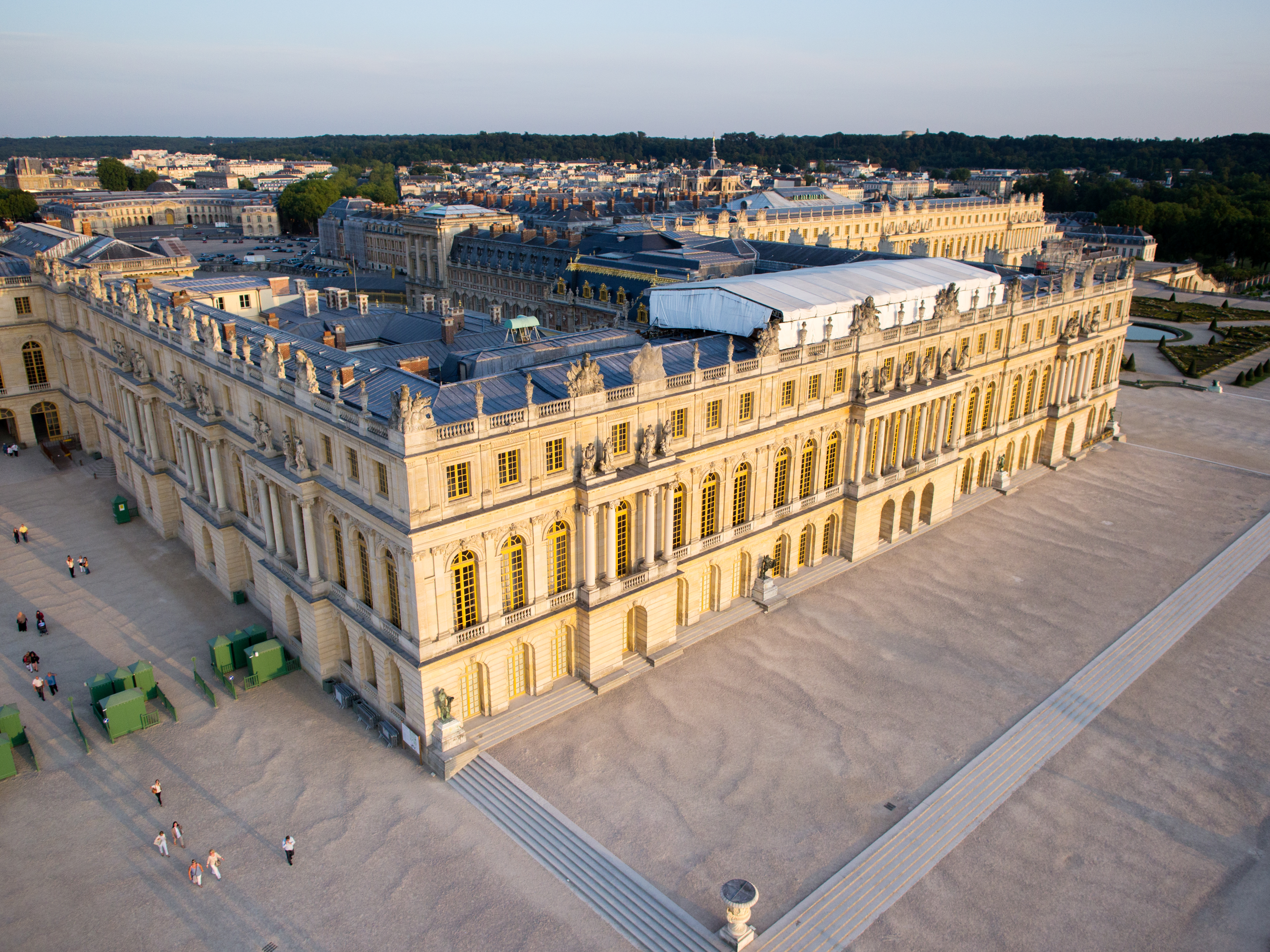 Aerial view of the central part of the Palace of Versailles, France